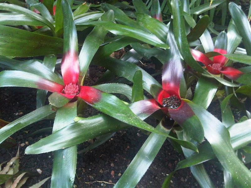 Neoregelia cyanea in Kew Gardens, England.